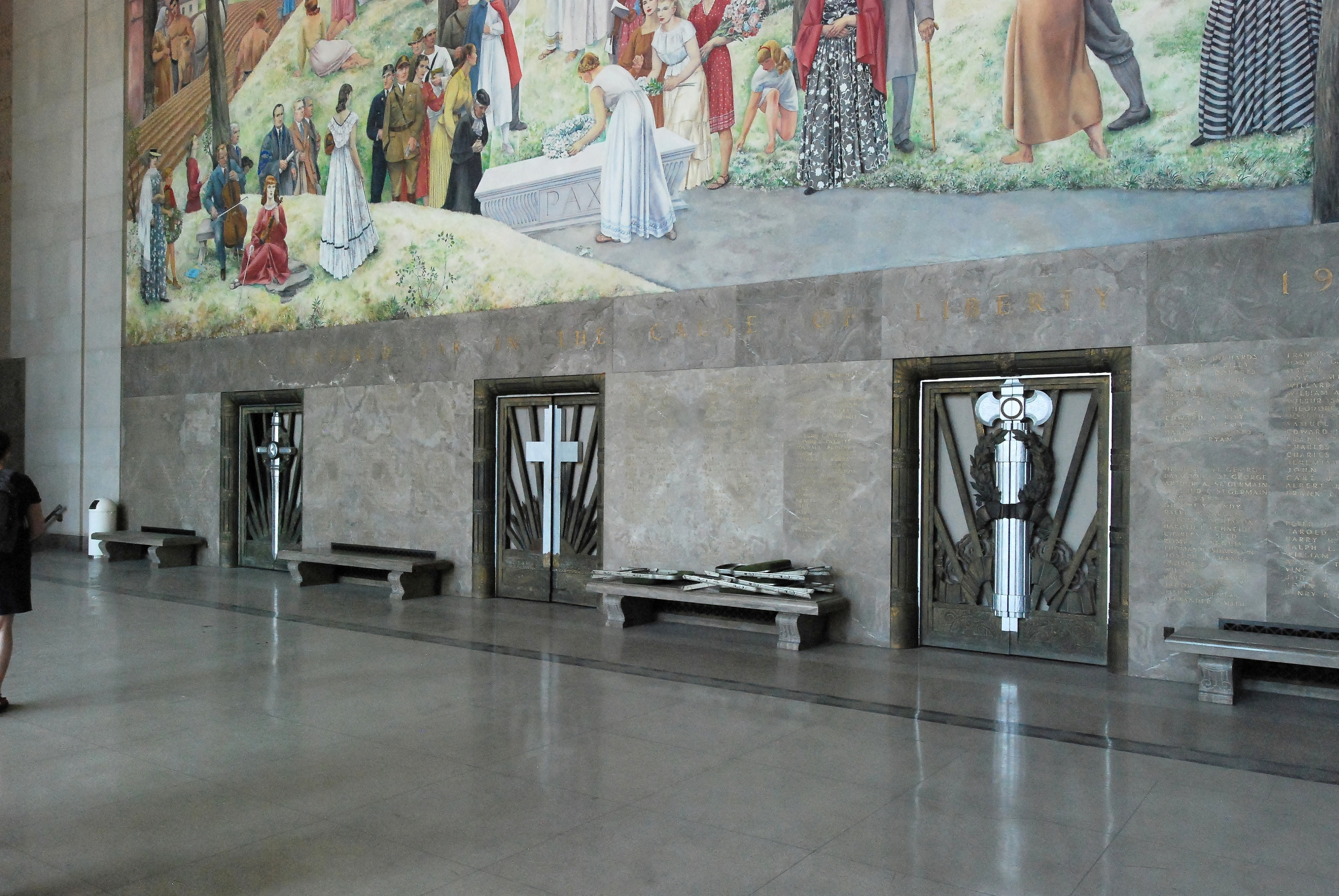 Worcester Memorial Auditorium, Worcester, Massachusetts